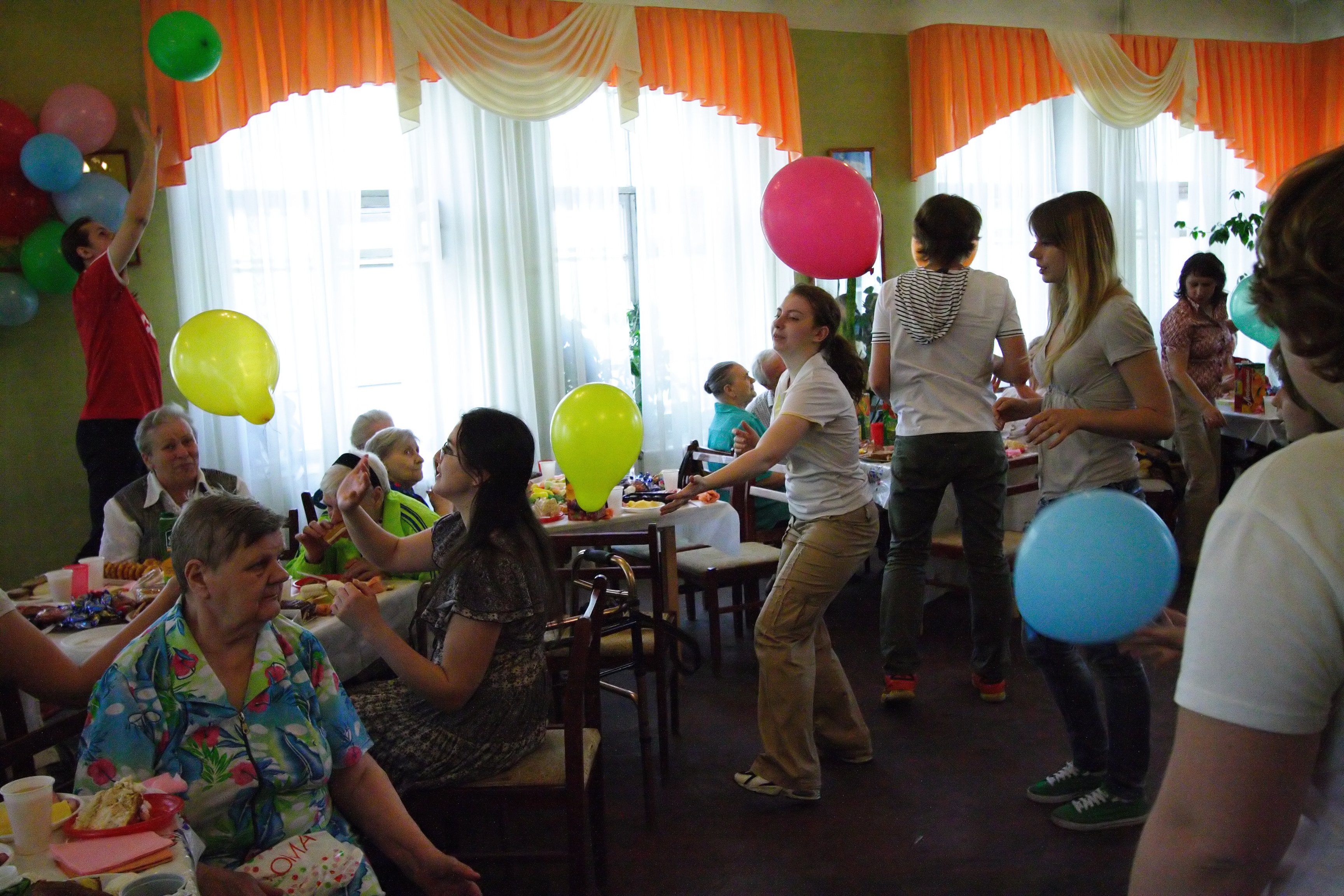 Celebration in Veterans nursing home. Ramenskoe, Moscow region, Russia.